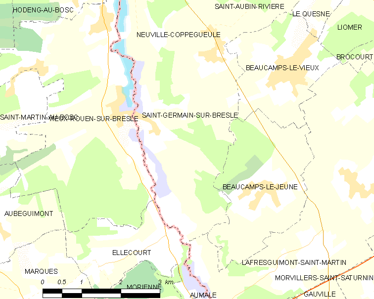 Map of French municipality Saint-Germain-sur-Bresle